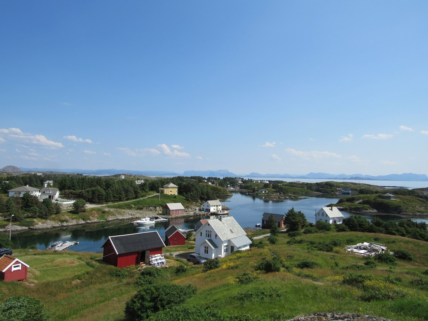 Settlement at Bulandet, Askøy; view from "Utsikten"